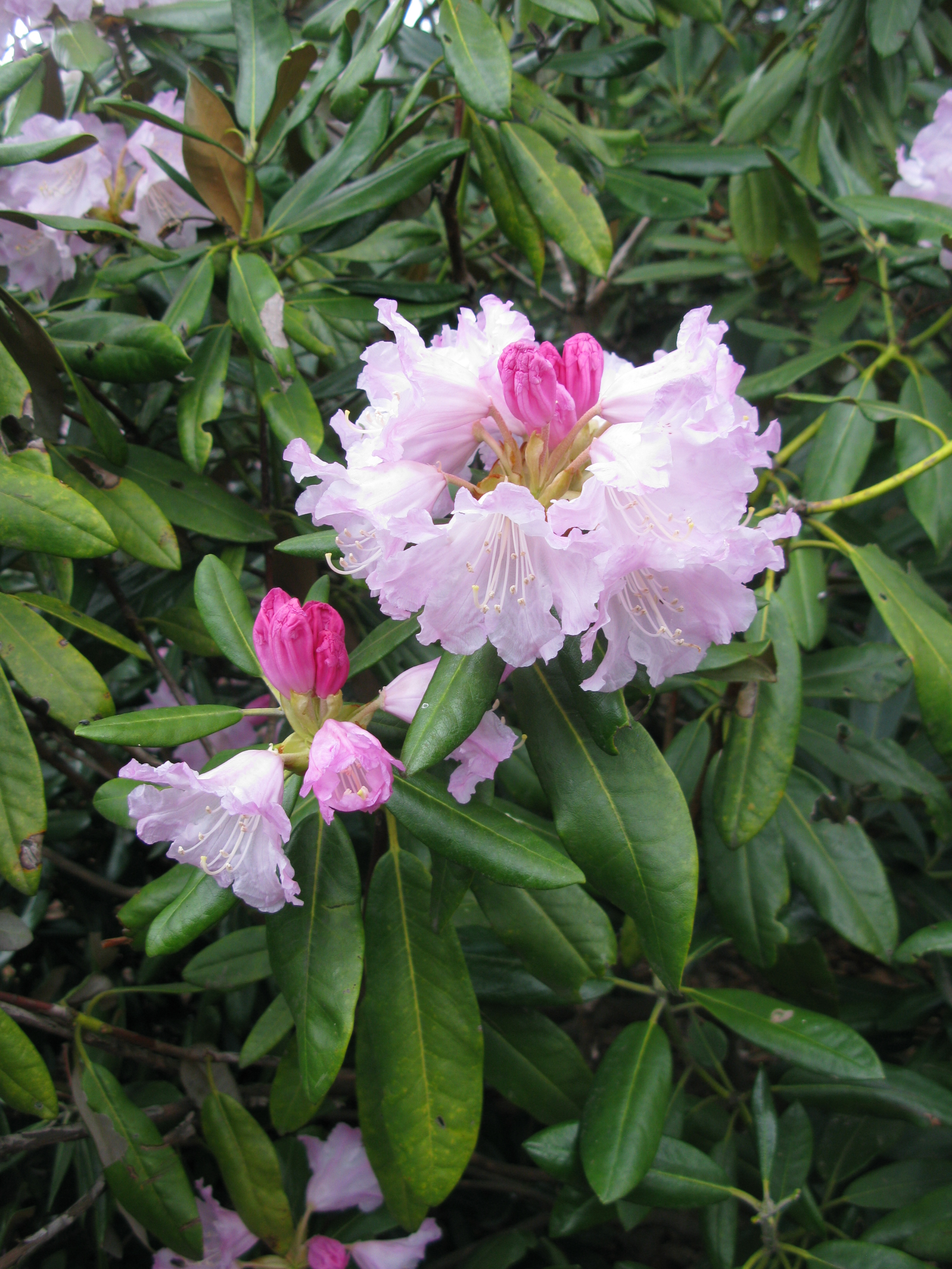 Rhododendron japonoheptamerum, Jindai Botanical Garden, Tokyo, Japan